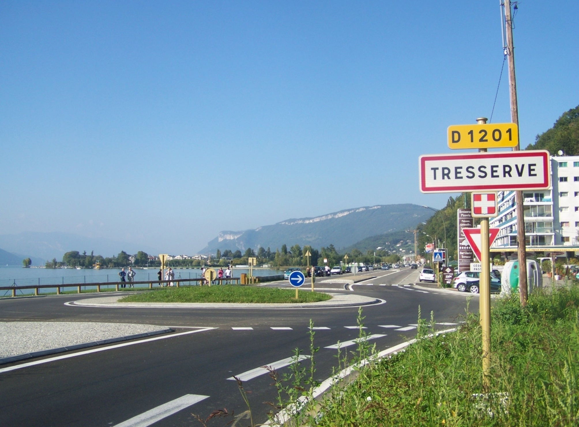 Sign welcoming to Tresserve, French commune situated near Aix-les-Bains and close to the lac du Bourget lake, in Savoie.